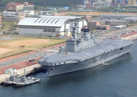 090828-N-5086M-055 REPUBLIC OF KOREA (Aug. 28, 2009) Republic of Korea Ship Dokdo (LPH 6111) moored at Busan. Blue Ridge is in Korea for exercise Ulchi Freedom Guardian 2009. (Crop of U.S. Navy photo by Mass Communication Specialist 2nd Class Greg Mitchell/Released)